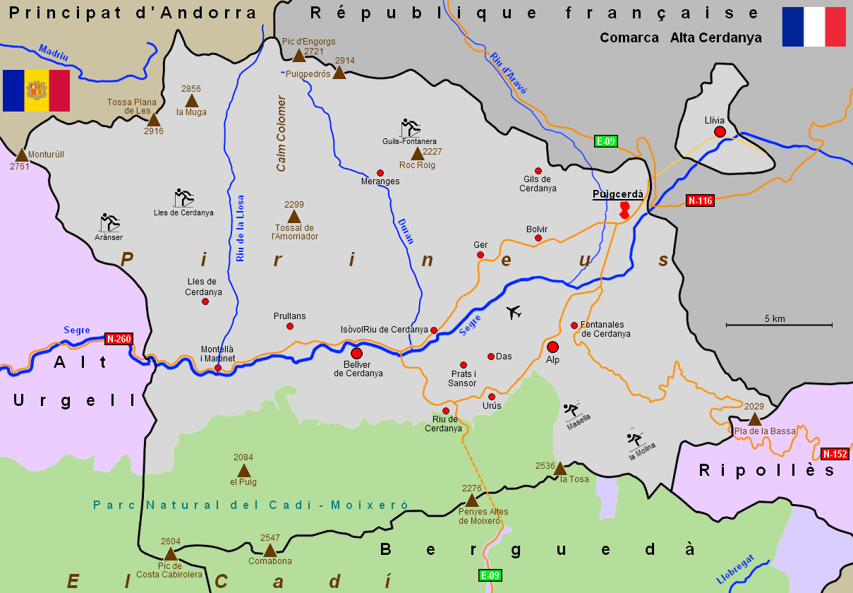 Map of the comarca Baixa Cerdanya, Catalonia, Spain